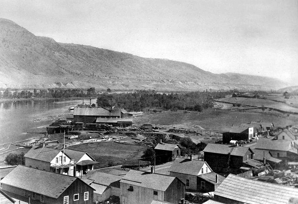 Kamloops, British Columbia 1886. Photo credit to Deville, British Columbia Archives Catalogue No. HP067611